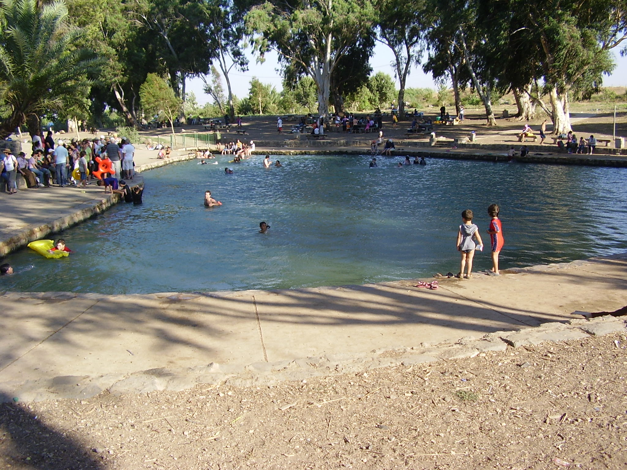 ein moda spring, israel מעיין עין מודע בעמק בית שאן